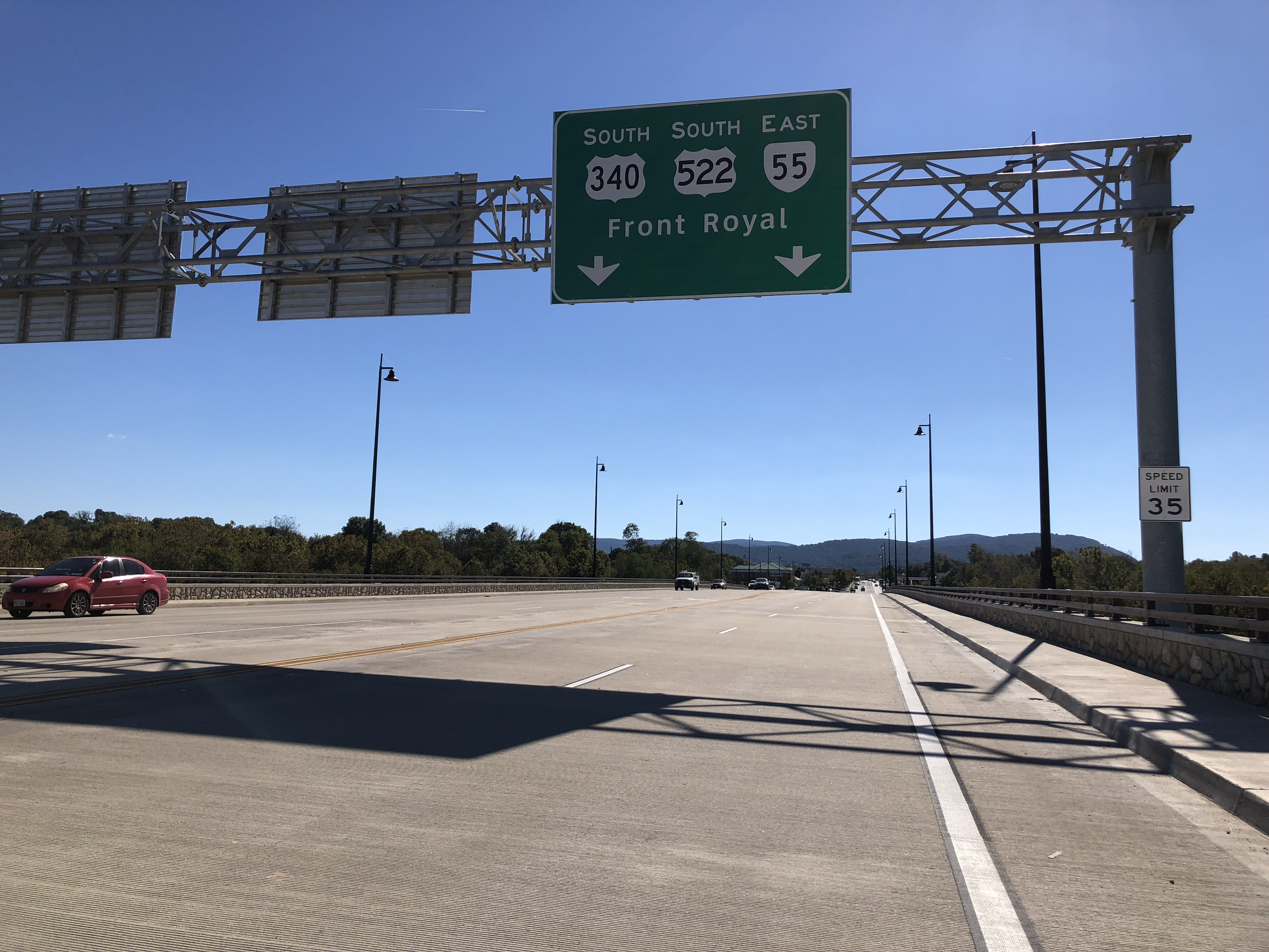 View south along U.S. Routes 340 and 522 and east along Virginia State Route 55 (Shenandoah Avenue) crossing the South Fork Shenandoah River in Front Royal, Warren County, Virginia